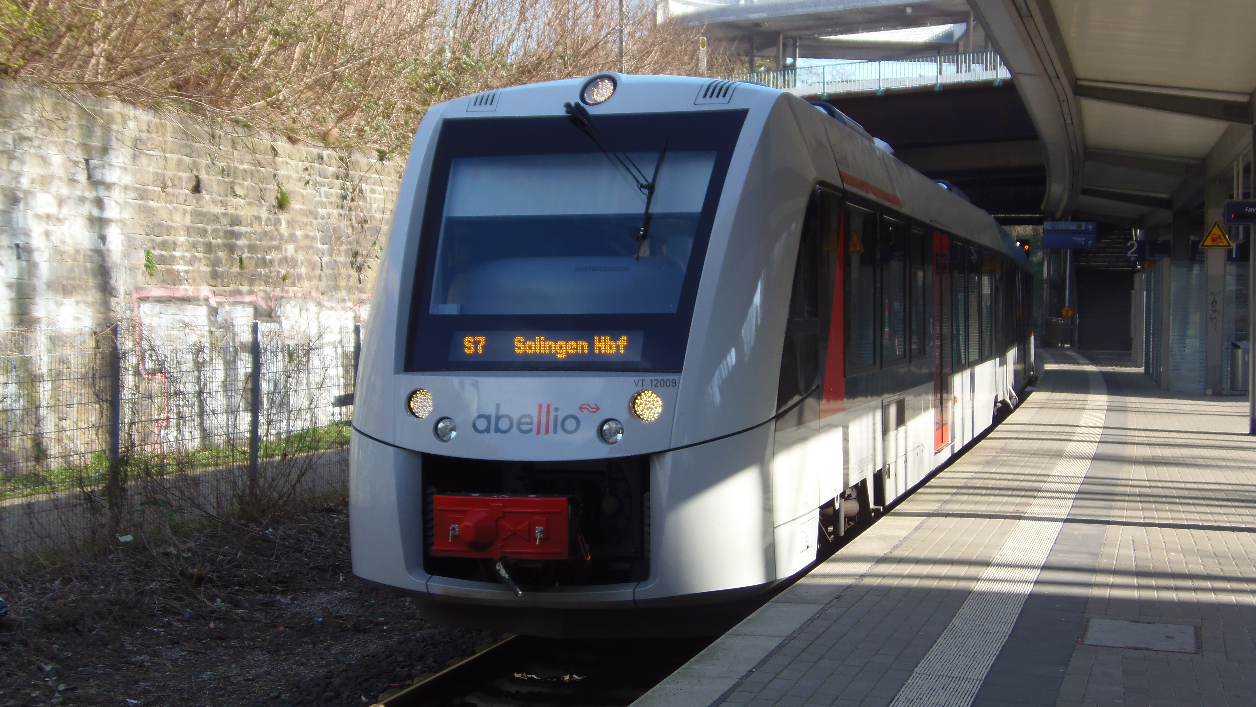 Train line S7 in Solingen Mitte